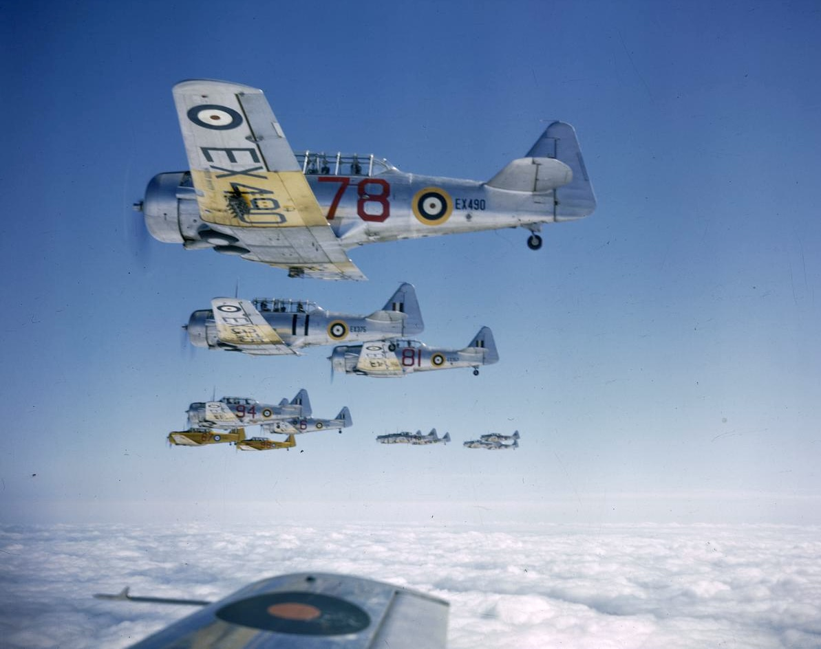 A flight of Royal Air Force North American Harvard IIAs from No. 20 Service Flying Training School being flown in formation by RAF trainee pilots participating in the Commonwealth Joint Air Training Programme at Cranborne, near Salisbury, Rhodesia (today Simbabwe).